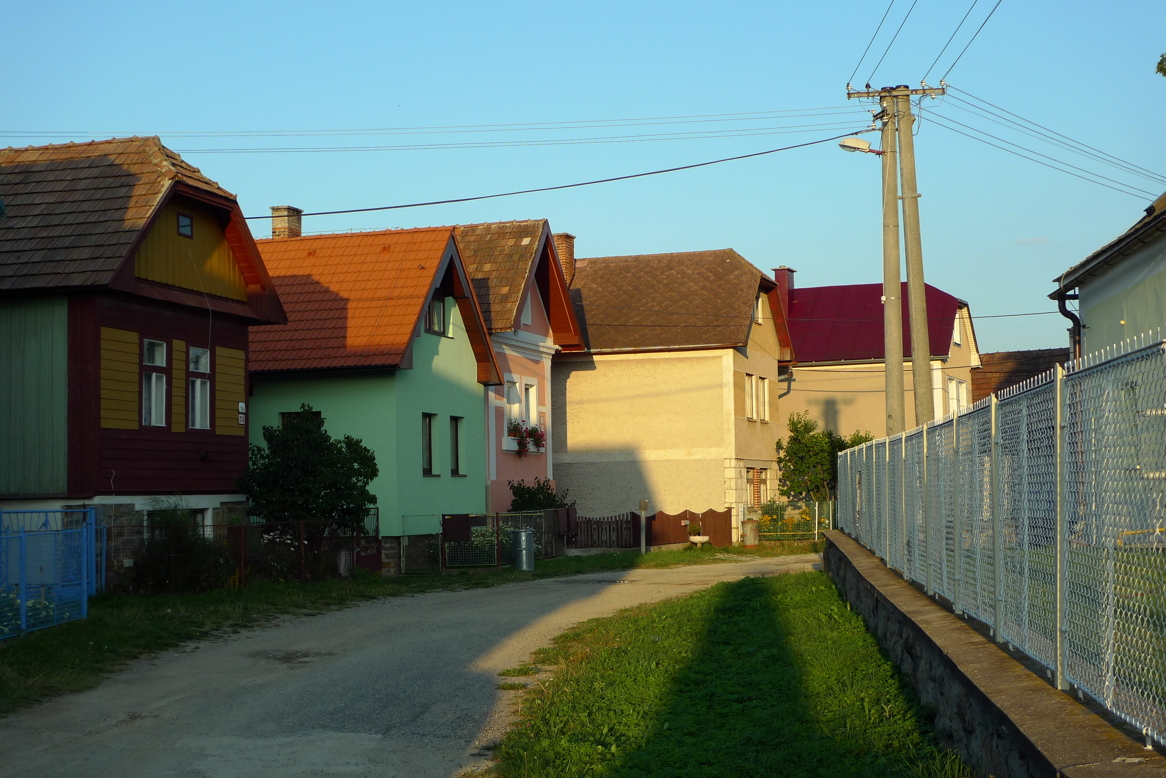 Main road in the village od Šuňava, Slovakia Česky: Hlavní ulice ve slovenské obci Šuňava